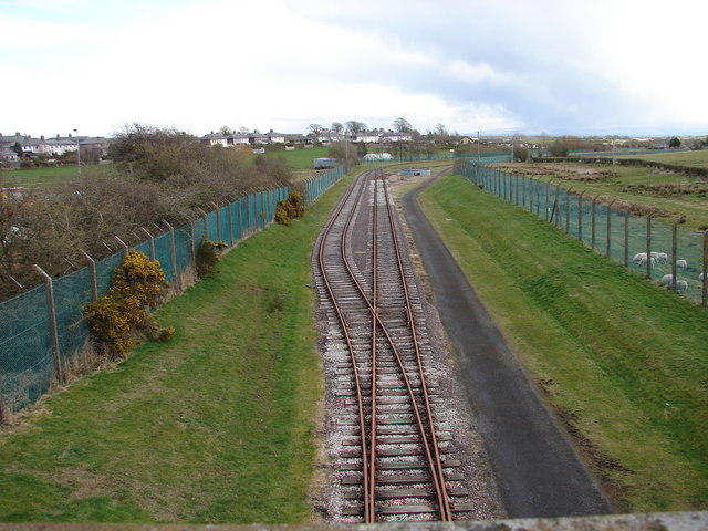 Ordnance Depot Railway, Eastriggs DM Railway for Eastriggs Ordnance Depot. During WW1 the War Department operated a passenger service for workers at the massive munitions factories; this was the site of Wylies Halt for workers from the newly built Ministry of Munitions housing estate of Eastriggs.